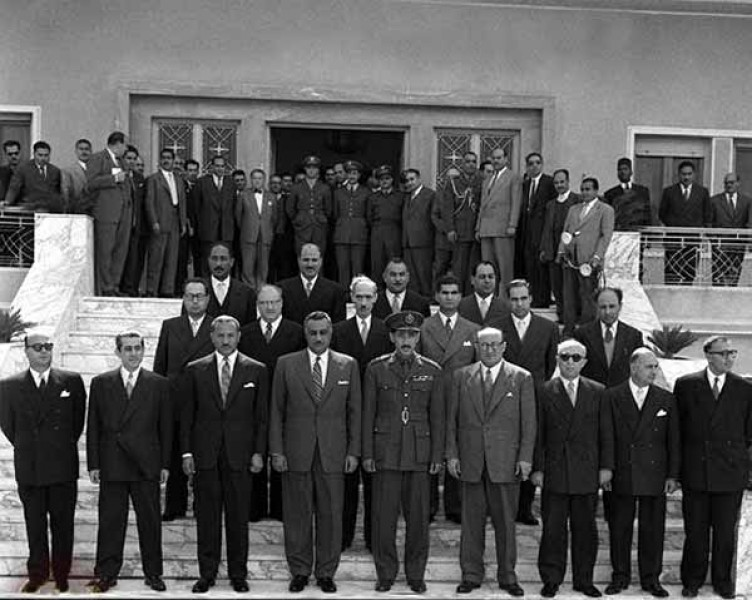 Gamal Abd al-Nasser at the gates of the Presidential Palace in Damascus in 1958. He is standing with Syrian and Egyptian cabinet members of the UAR. Second from left is the socialist leader Akram al-Hawrani, who became Vice-President of the UAR. Next to him is Abd al-Latiff al-Baghdadi, the Egyptian Vice-President, followed by Nasser, Marshal Abd al-Hakim Amer, who became Governor of Syria, and Sabri al-Asali, his other Syrian Vice-President. Then stands Fakhir al-Kayyali, the Minister of Economy. Standing to the far right is the Baath Party co-founder Salah al-Bitar. In the middle row, second from left, is Abd al-Hamid Sarraj, Syria\'s ex-Director of Intelligence, who became Minister of Interior in the UAR.